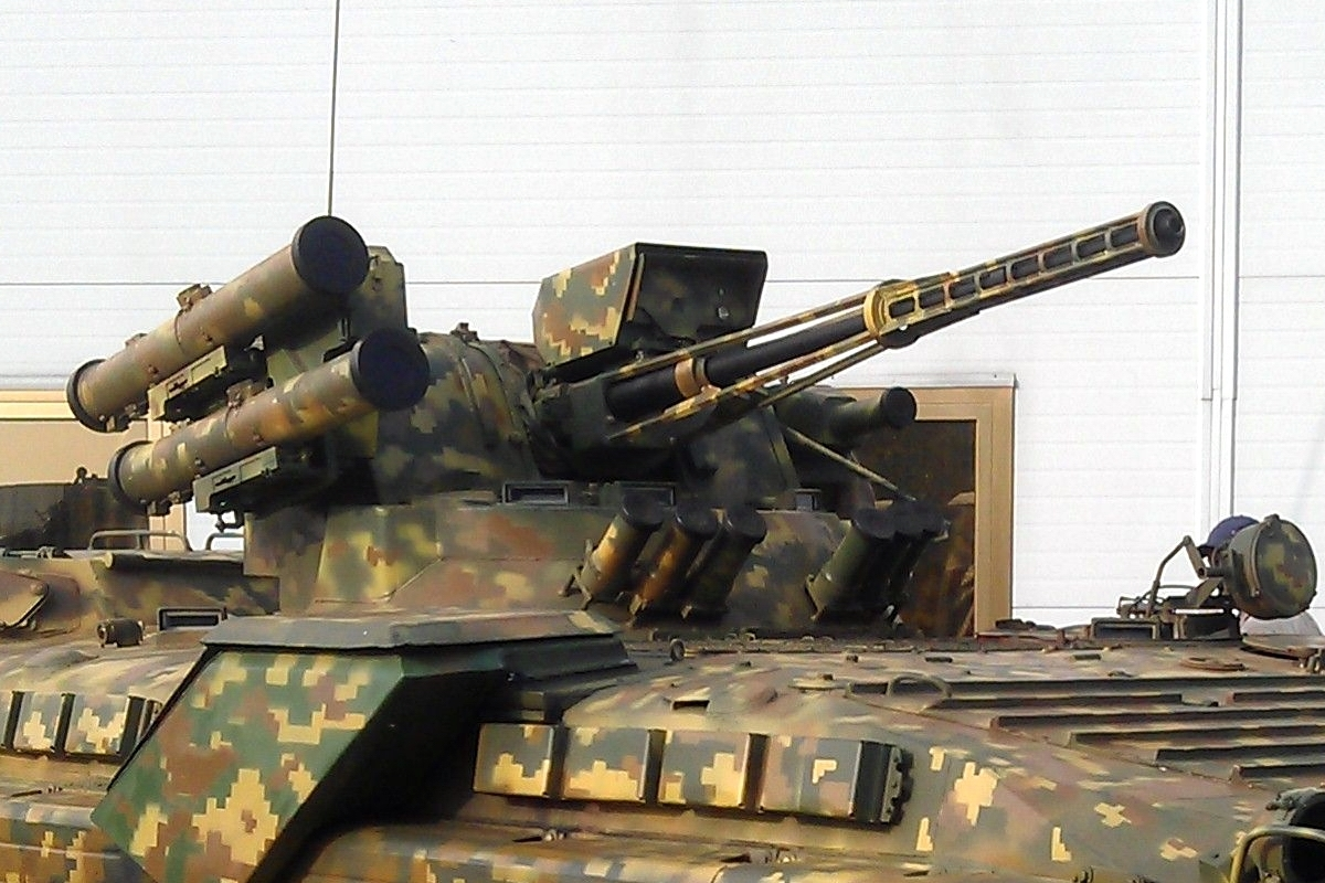 Shkval fighting module (Ukraine)